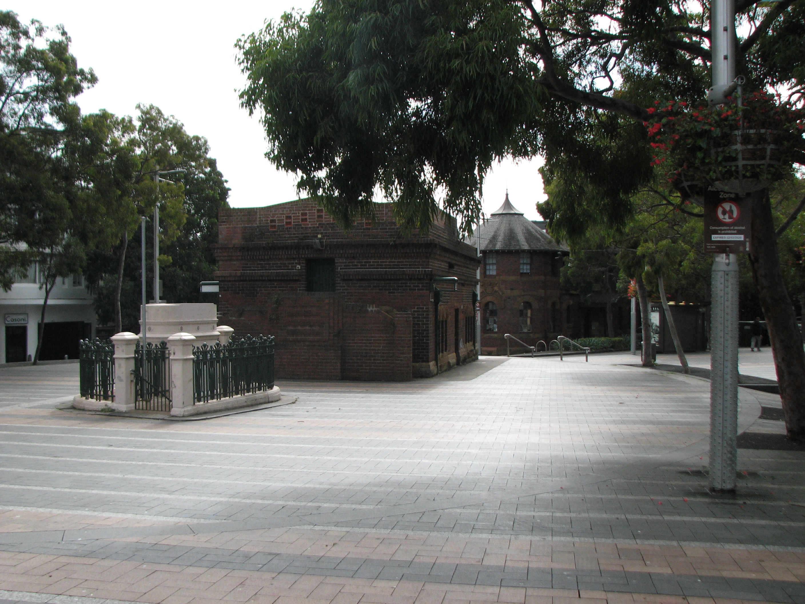 Taylor Square Substation No. 6 and Underground Conveniences, Taylor Square, New South Wales. These items are listed on the New South Wales State Heritage Register